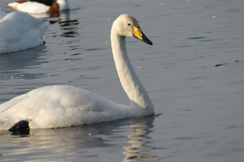 Cygnus cygnus Whooper Swan Rhion Pritchard 11/2005